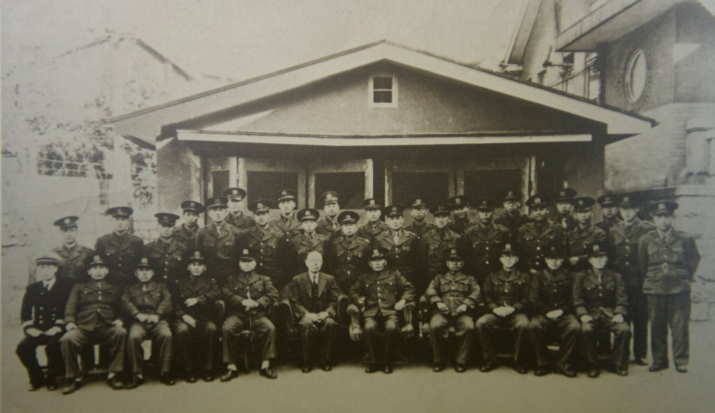 Members of the Choson National Defense Guard in front of the Department of Tongwee, equivalent to the Ministry of Defense.